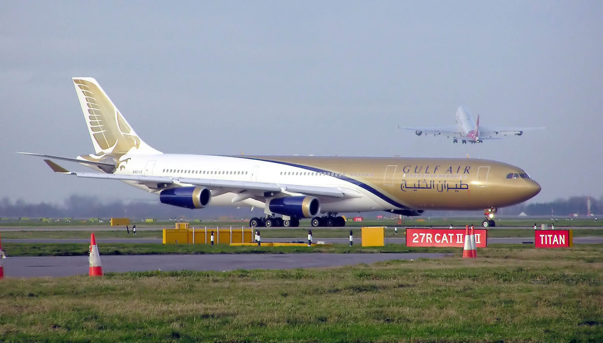 Gulf Air Airbus A340-300 (A4O-LE) taxiing at London (Heathrow) Airport. A Virgin Atlantic Boeing 747 takes off beyond. From the English Wikipedia. Taken by Adrian Pingstone in January 2005 and released to the public domain.